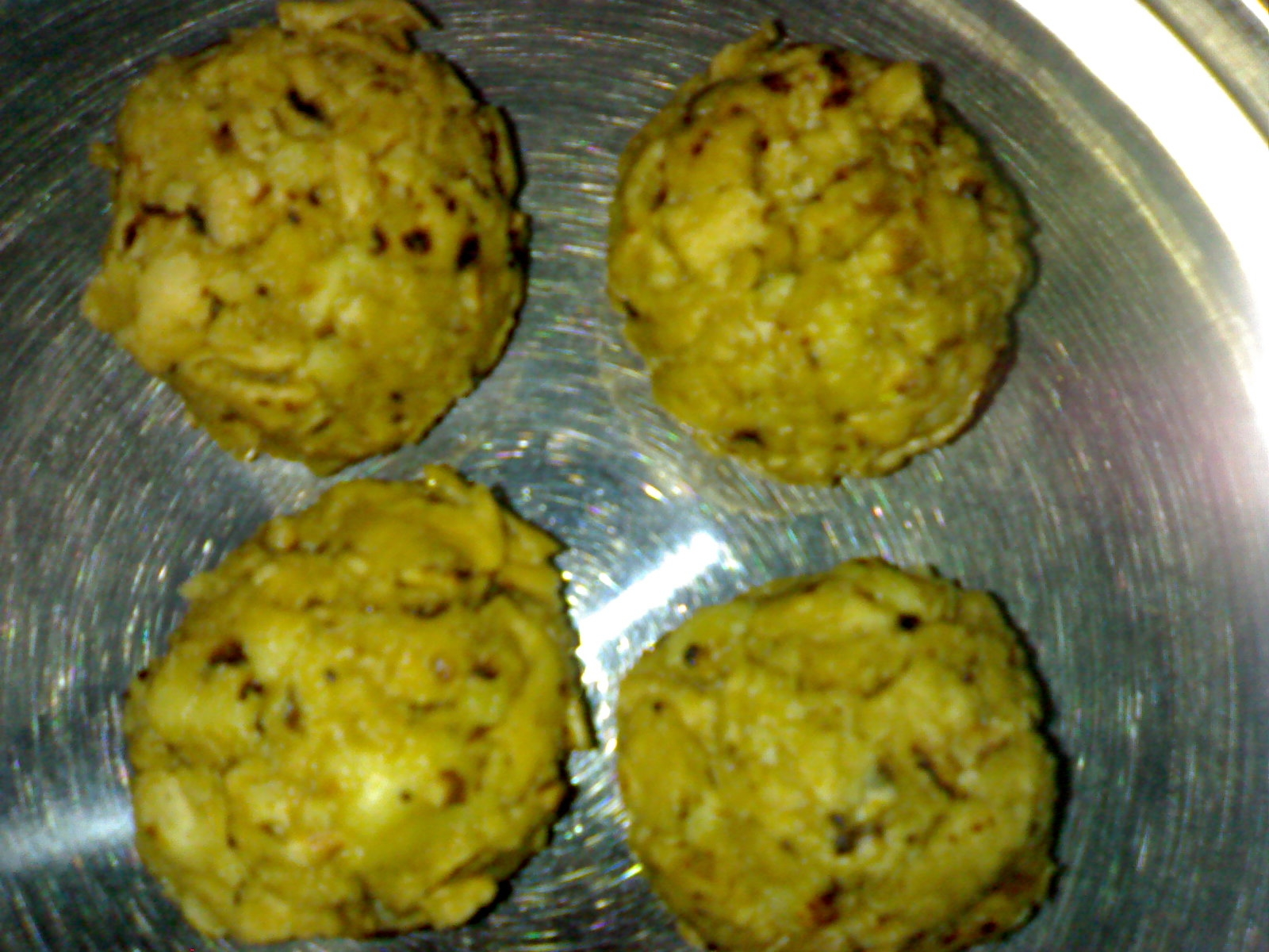 Maleeda prepared on Batukamma festival in Andhra Pradesh, India.